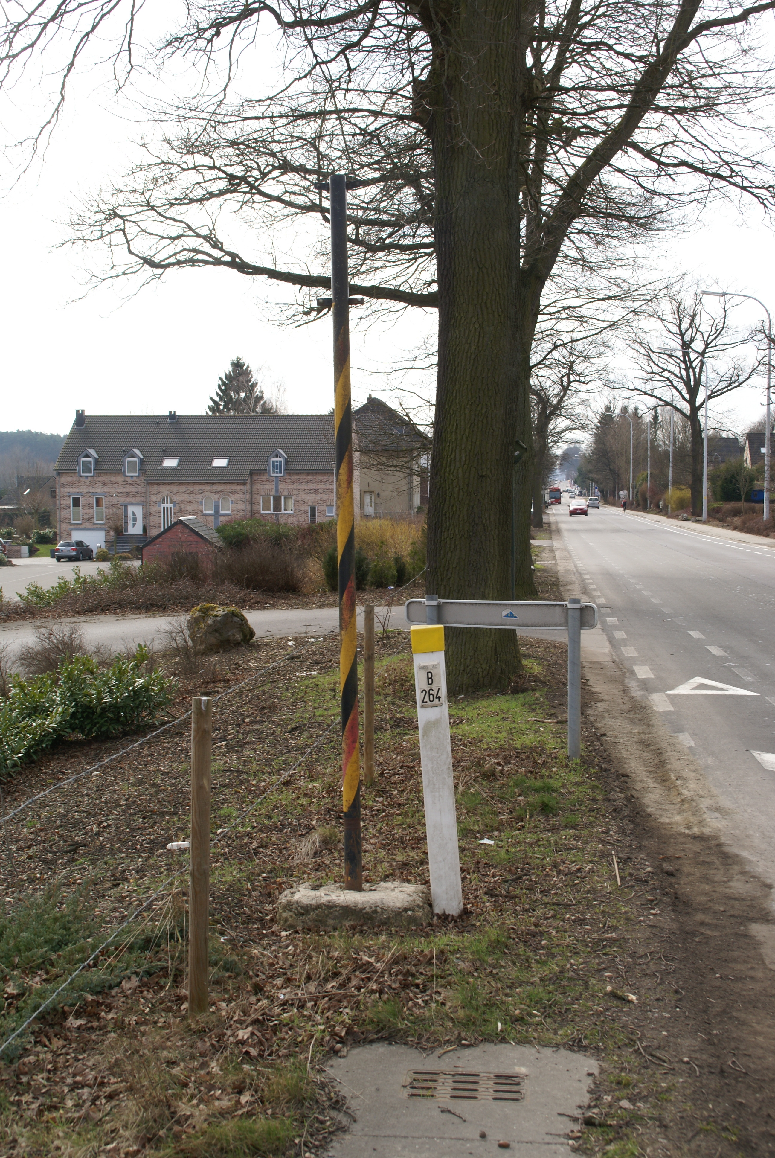 Neu-Moresnet (Belgium): Border between Belgium and Germany at Bildchen and Neu Moresnet